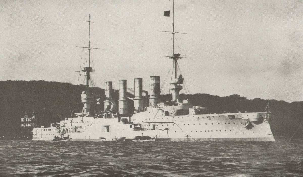 German armored cruiser SMS Gneisenau around 1905